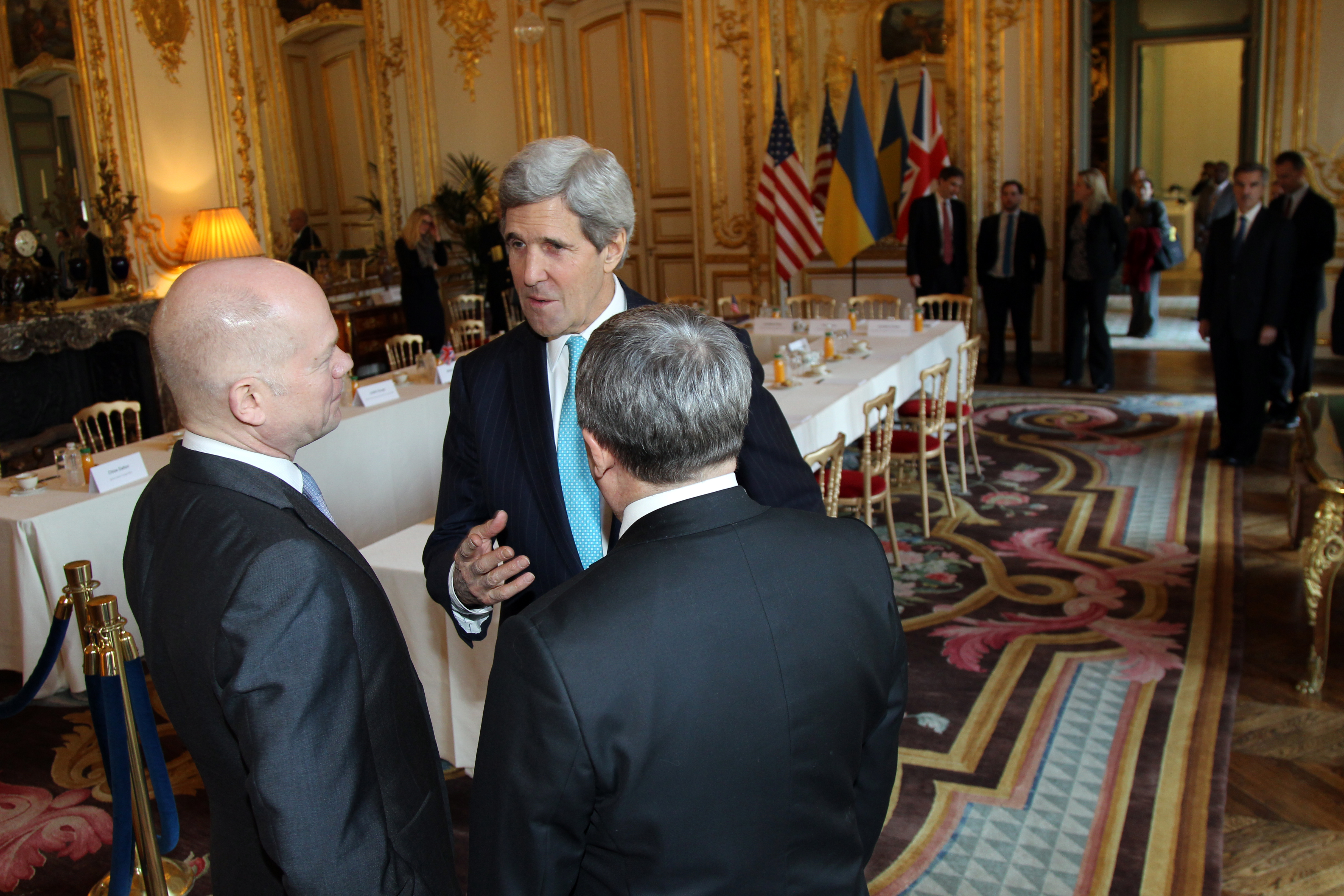 Hague and Kerry discussing on Ukraine Crisis